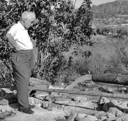 Israeli geologist Leo Picard inspects a new water drill near Jerusalem. Photo by Etan Tal ~1964